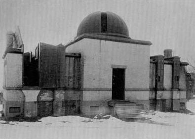 Sayre Observatory, donated to Lehigh University "by Robert H. Sayre, Esq., of South Bethlehem, in 1868. In the dome of the observatory is mounted an equatorial telescope, of six inches aperture, by Alvin Clark & Sons. The west wing contains a superior siderial clock, by Wm. Bond & Sons; a zenith telescope, by Blunt, and a field transit, by Stackpole. There is also a prismatic sextant, by Pistor & Martins. Students in practical astronomy receive instruction in the use of the instruments and in actual observation." Edmund M. Hyde, The Lehigh University, a Historical Sketch, 1896.